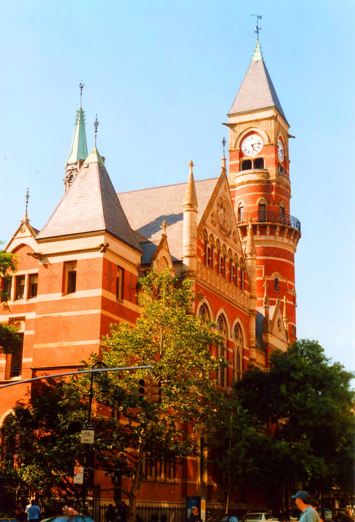 Third Judicial District Courthouse